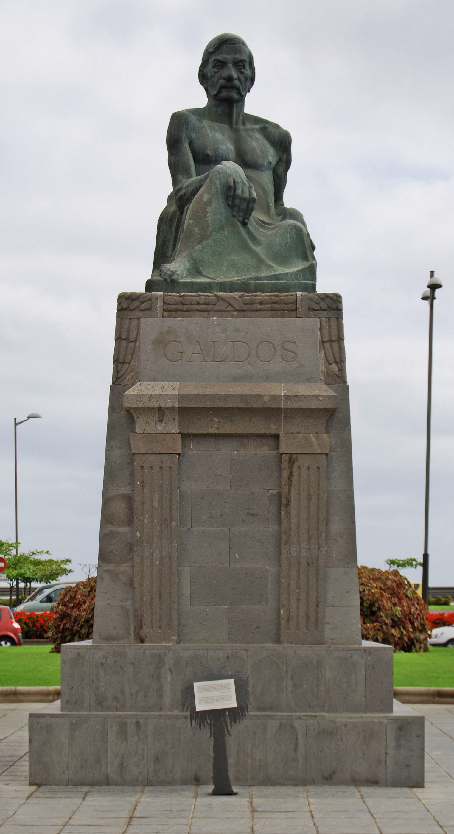 Monument of Benito Pérez Galdós, Las Palmas de Gran Canaria.